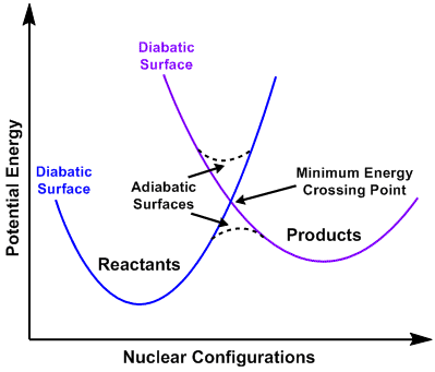 Adiabatic and Diabatic Curves Crossing in spin forbidden reactions